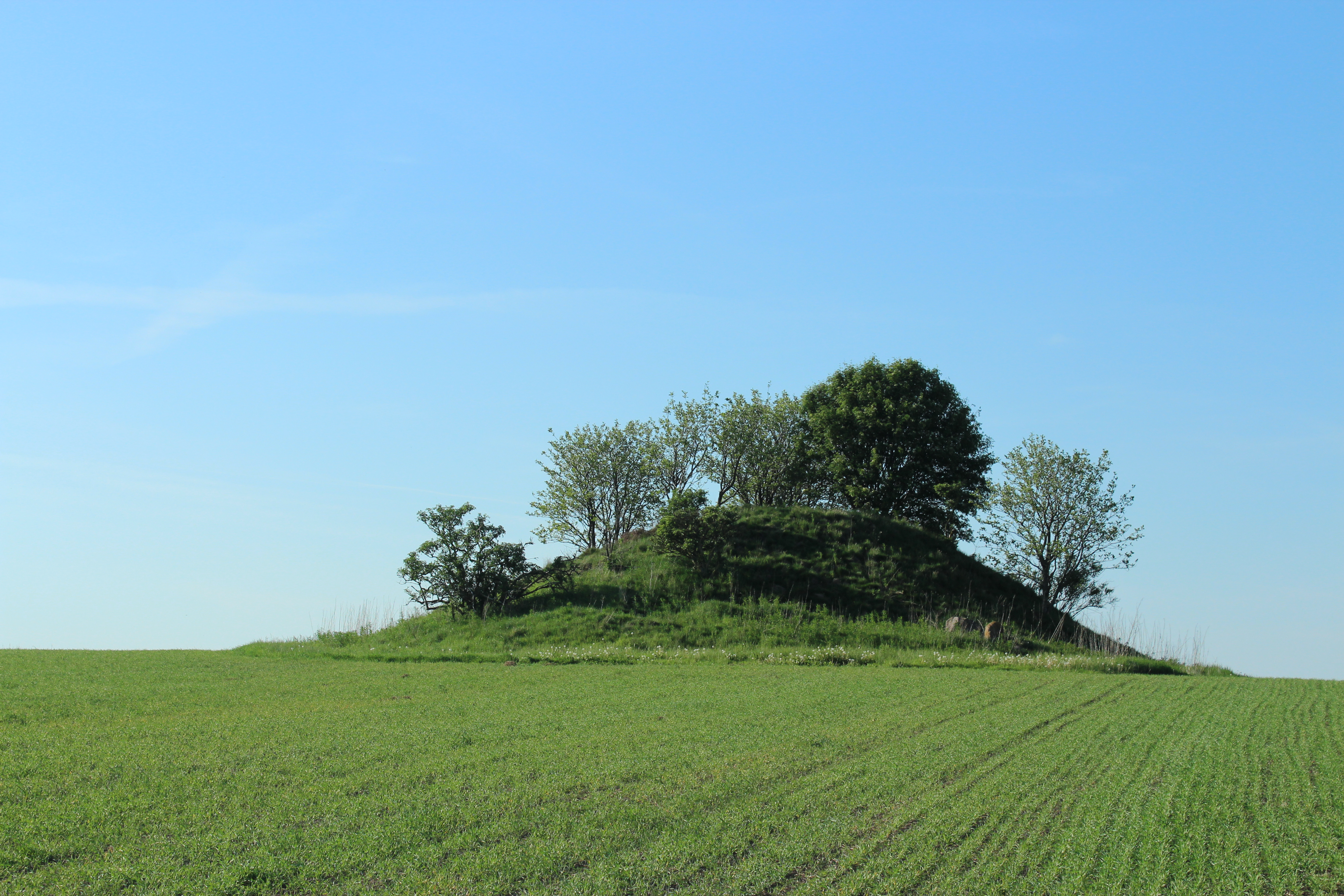 The tumulus Tinghøjen near road A16 between the towns Hammershøj and Kvorning, Denmark. Period Antiquity Conservation number 191141 Conservation status B (1938) Surroundings Agricultural fields Registrations 1892-1893: Untouched tumuli, 14' high, 1938: Almost untouched, height 7-8 m, diameter 25 m, side damaged.